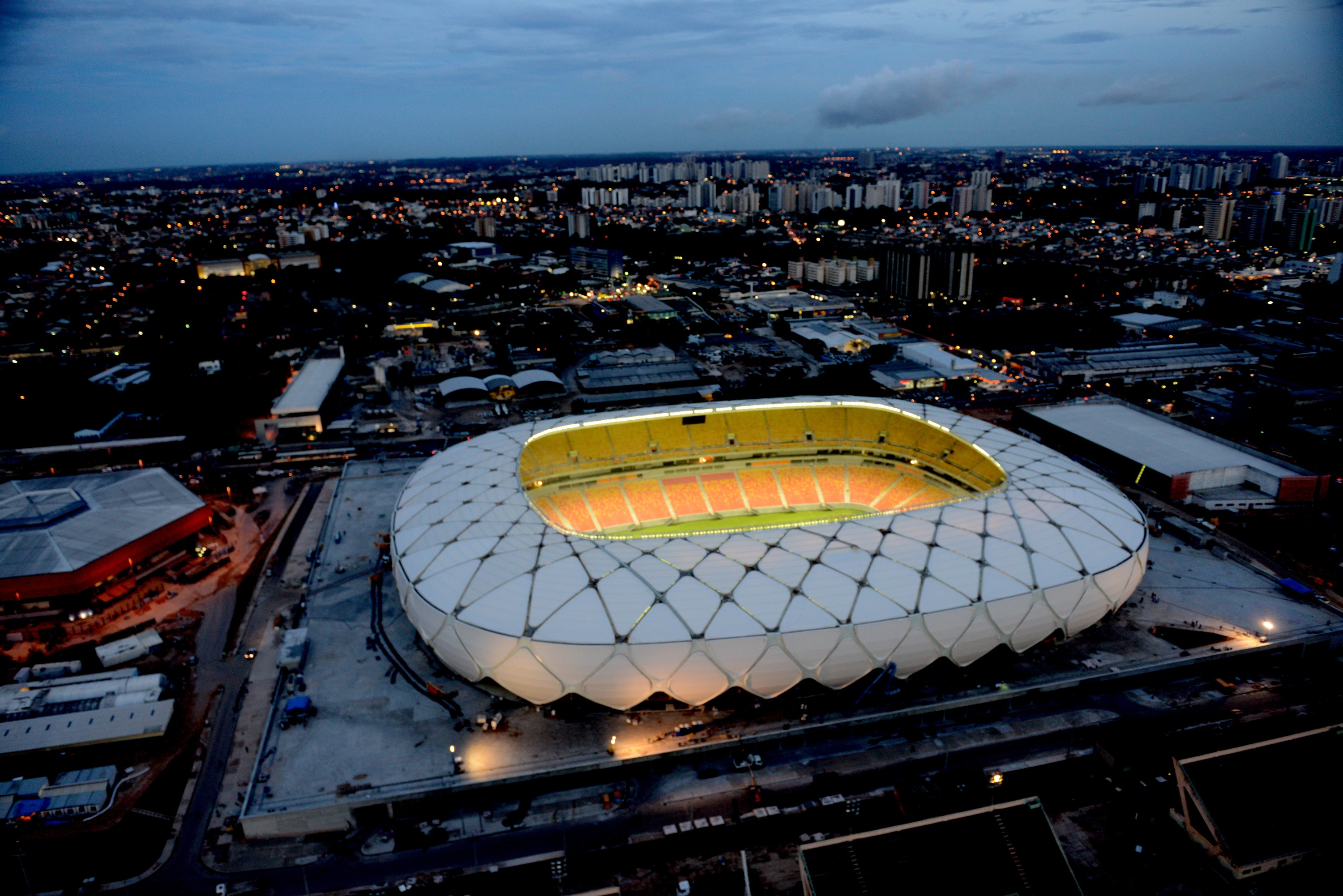 Amazonia Arena by evening on February 2014